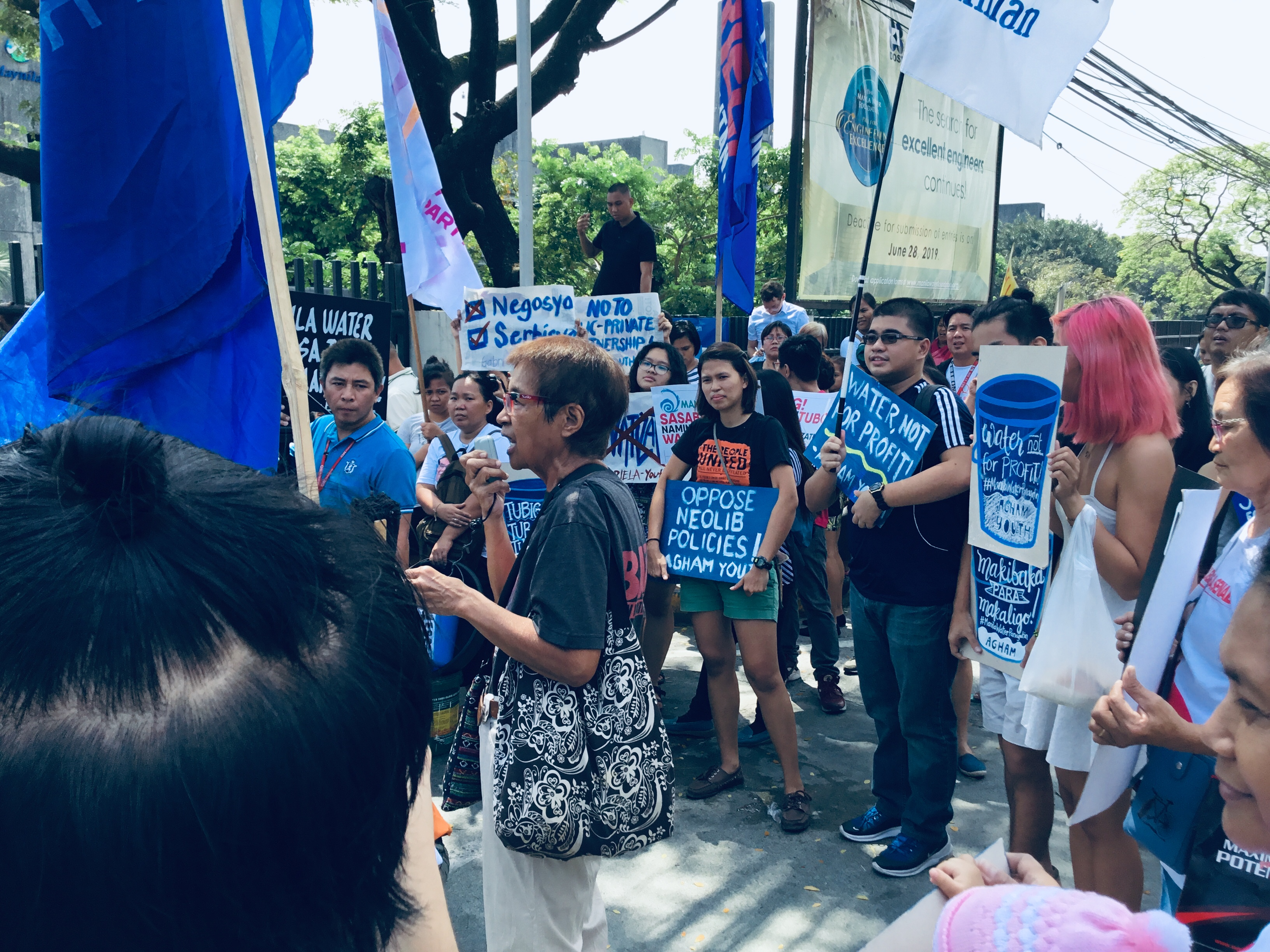 Water Crisis Rally at MWSS March 15, 2019